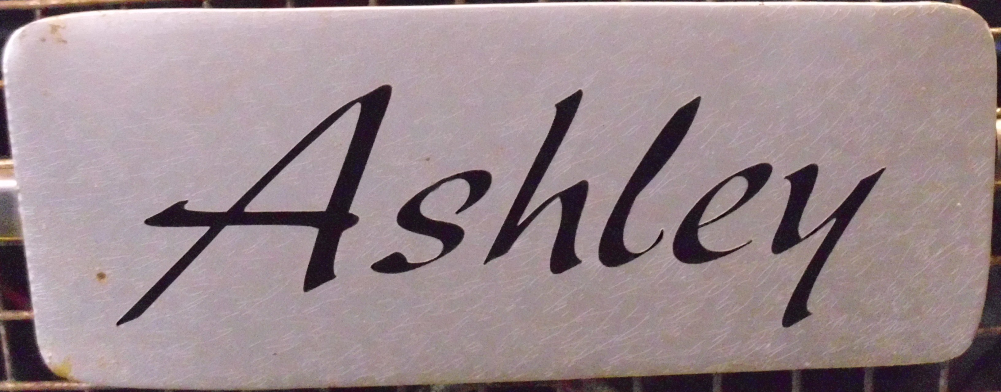 Emblem Ashley